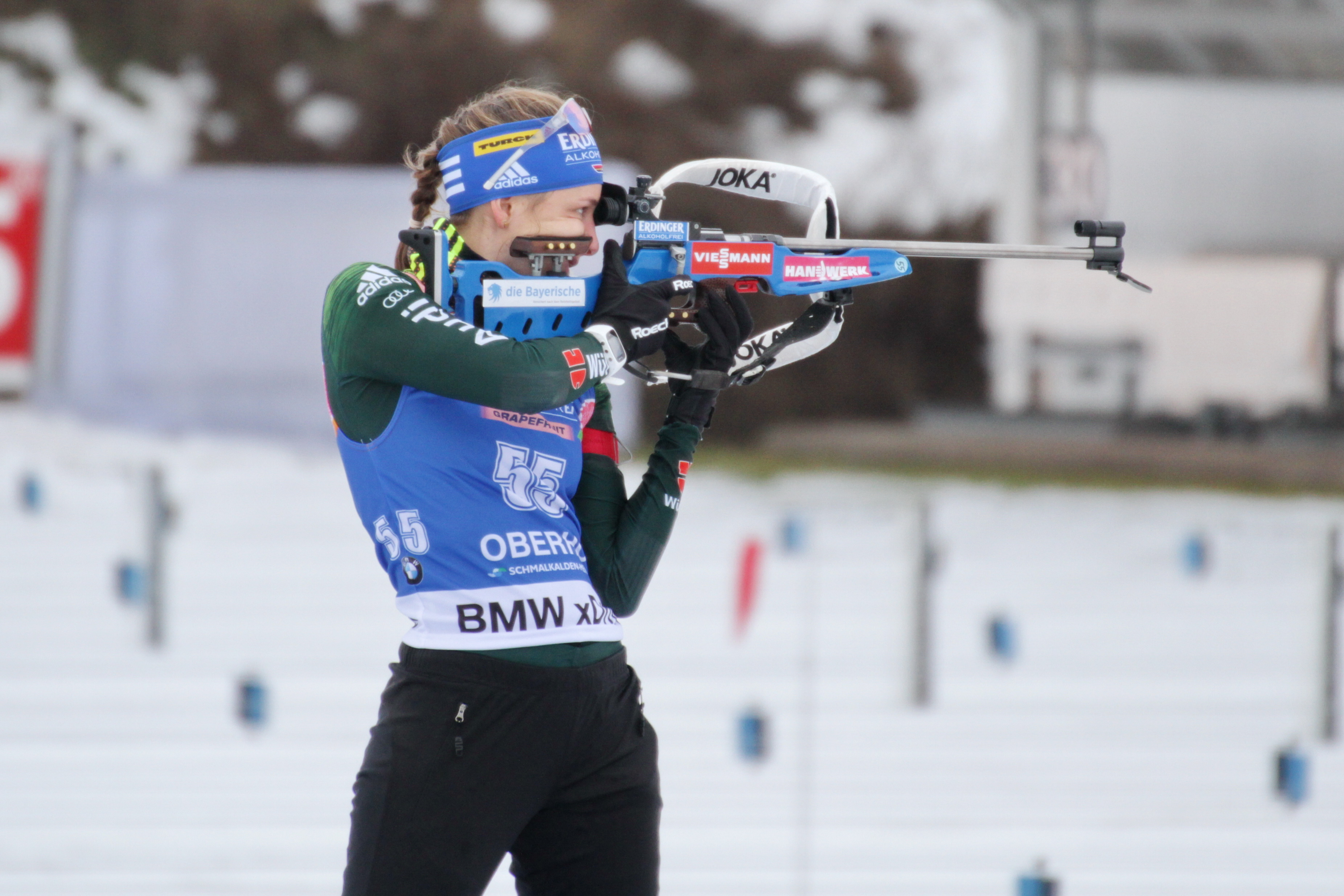 2018 Oberhof Biathlon World Cup - Pursuit Women